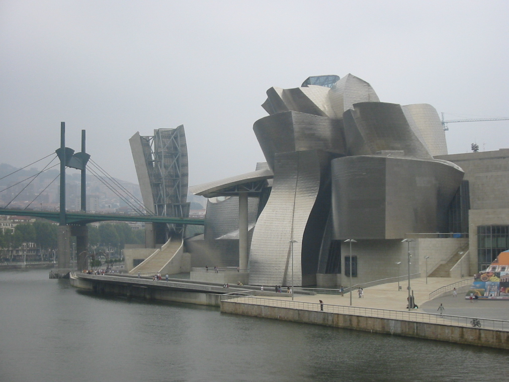 Guggenheim Museum in Bilbao